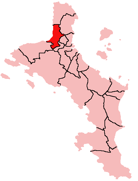 Locator map of the district Beau Vallon of Seychelles (Mahe Island); created with the GIMP. Made by User:Acntx.